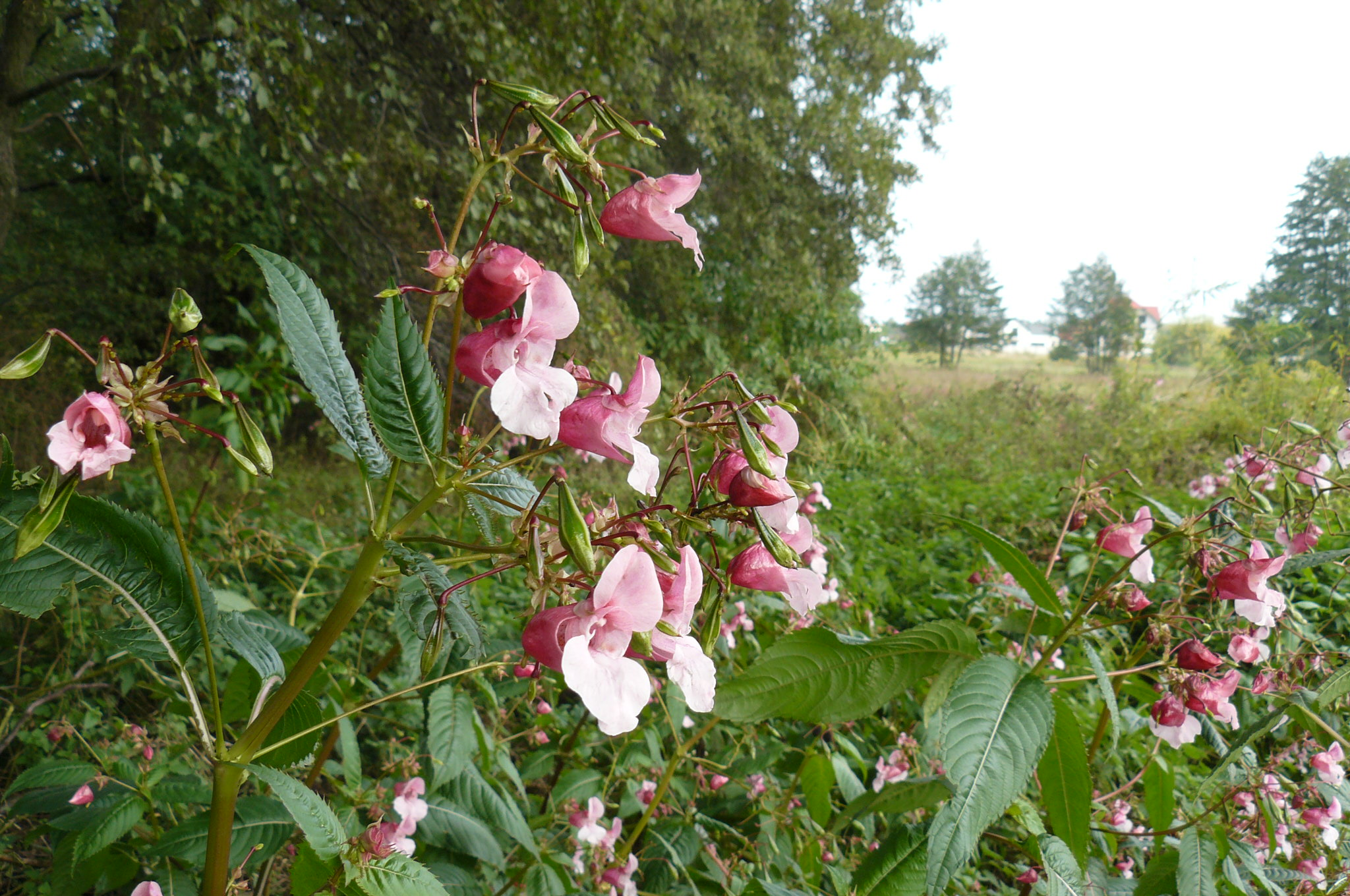 Owcza Street - Poznan.